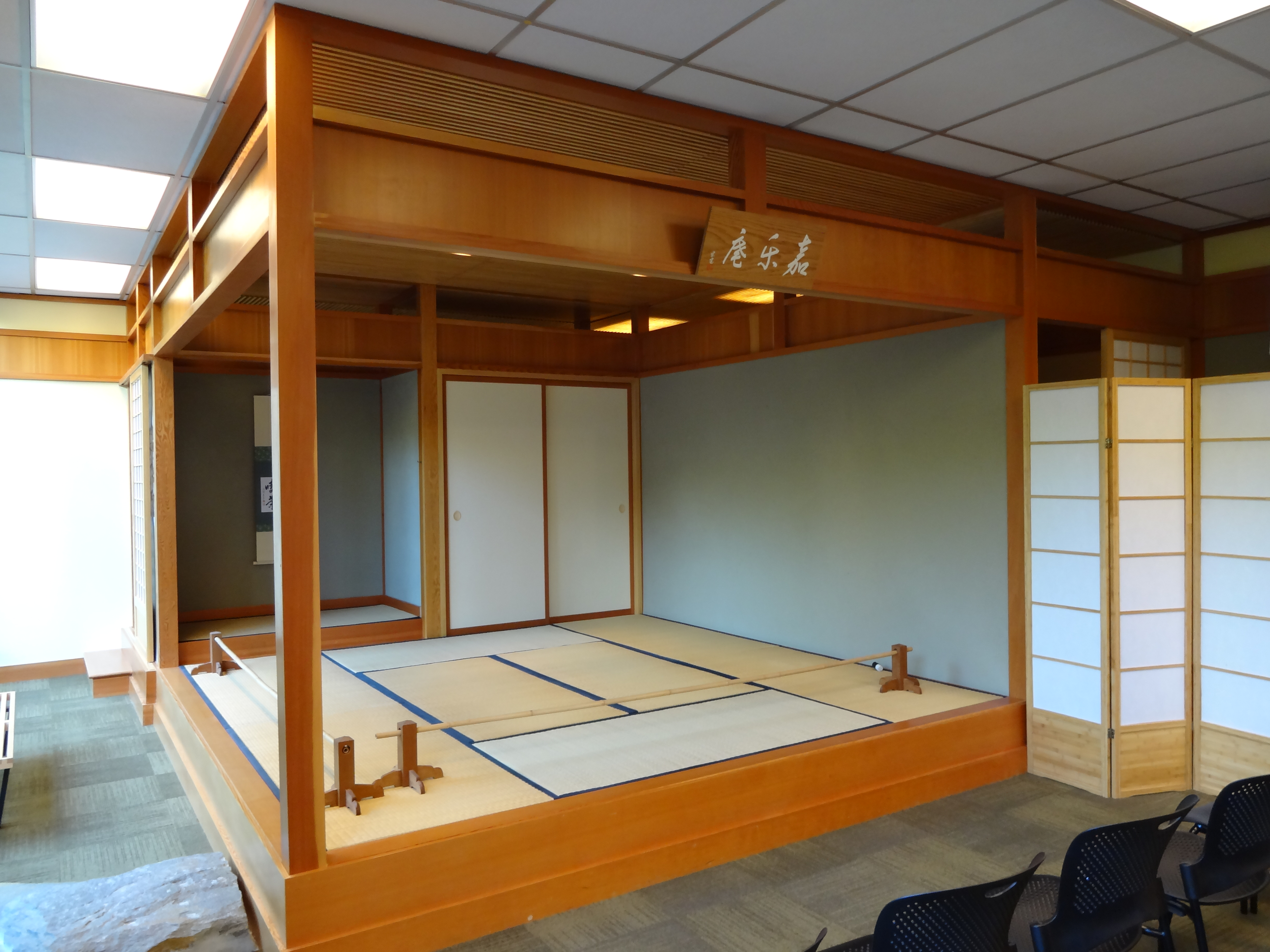 Interior of Sōkiku Nakatani Tea Room and Garden, California State University, Sacramento, United States